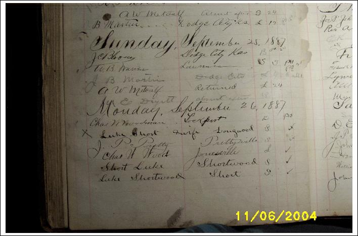 Photograph of signatures in the original register of the Cimarron Hotel. Photo taken by Kathleen Holt, the current owner the Cimarron hotel.